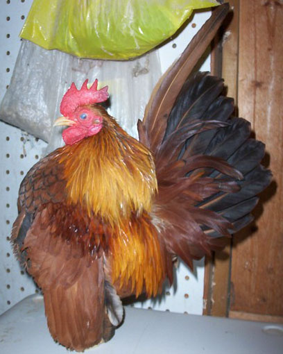 American Serama cock